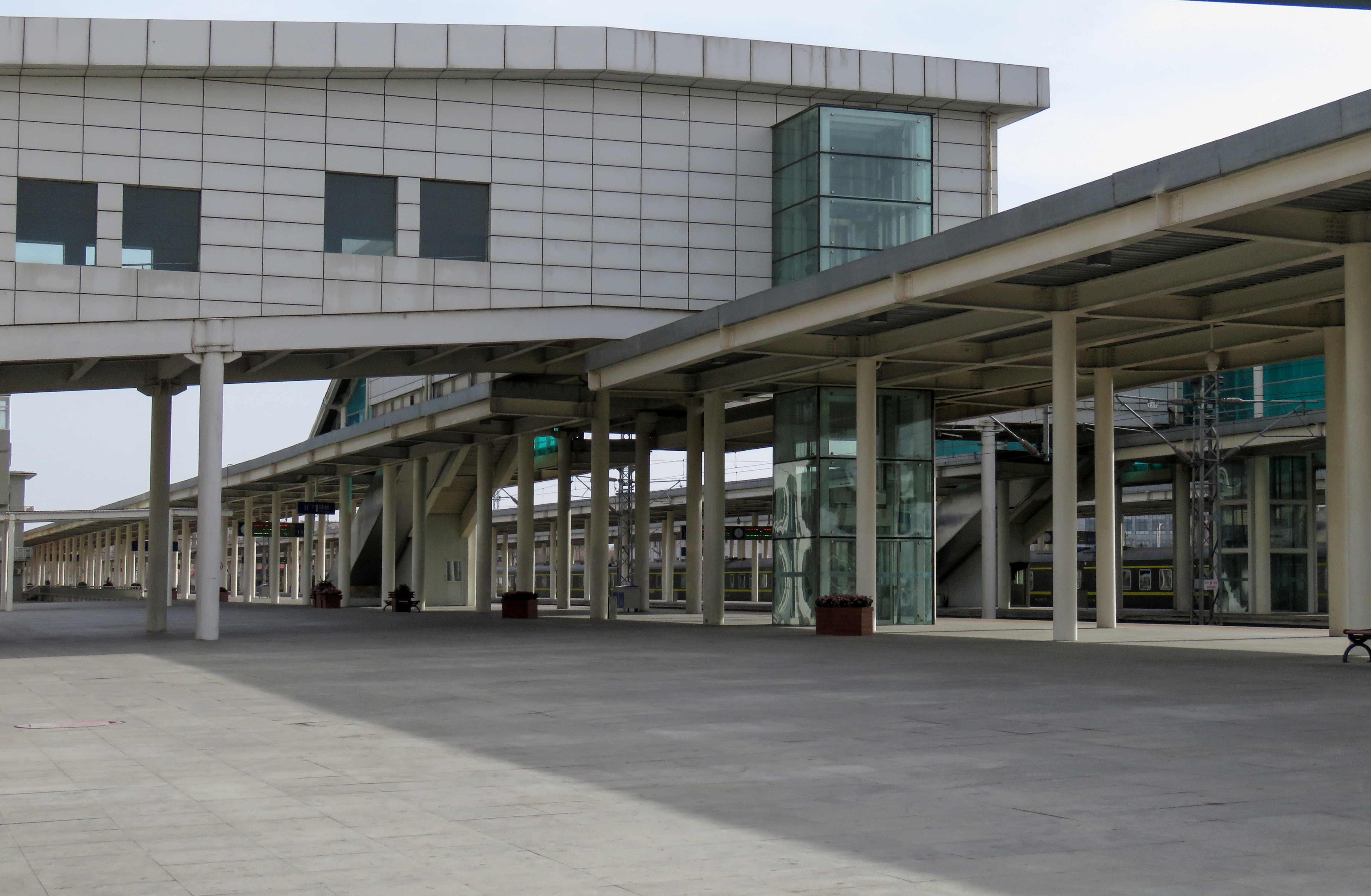 The flyover looked a bit eerie...